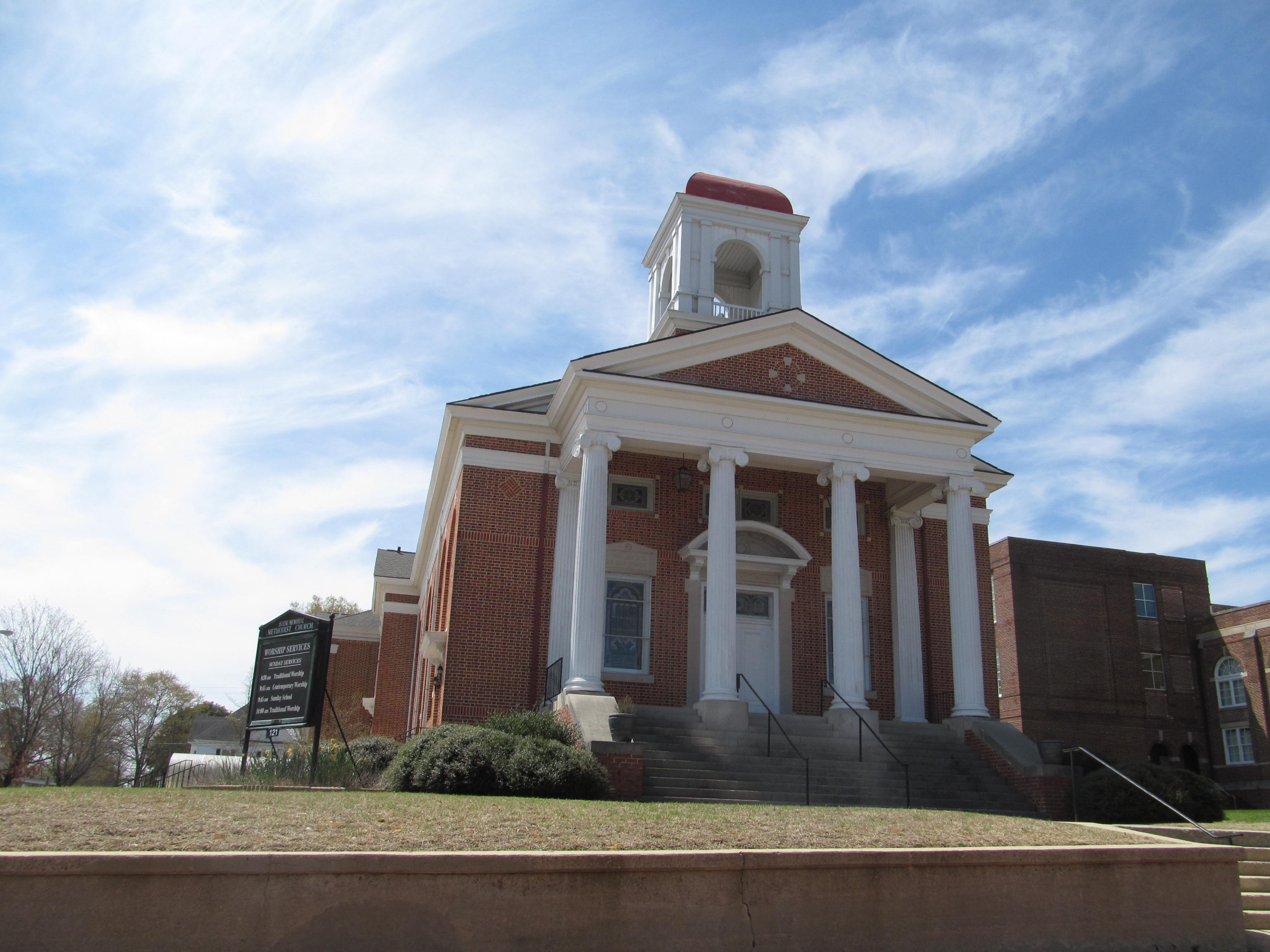 Clayton, North Carolina Horne Memorial United Methodist Church in the Clayton Historic District in Clayton, North Carolina. The district is listed on the National Register of Historic Places.